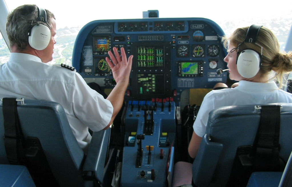 Cockpit crew of airship D-LZZR during flight